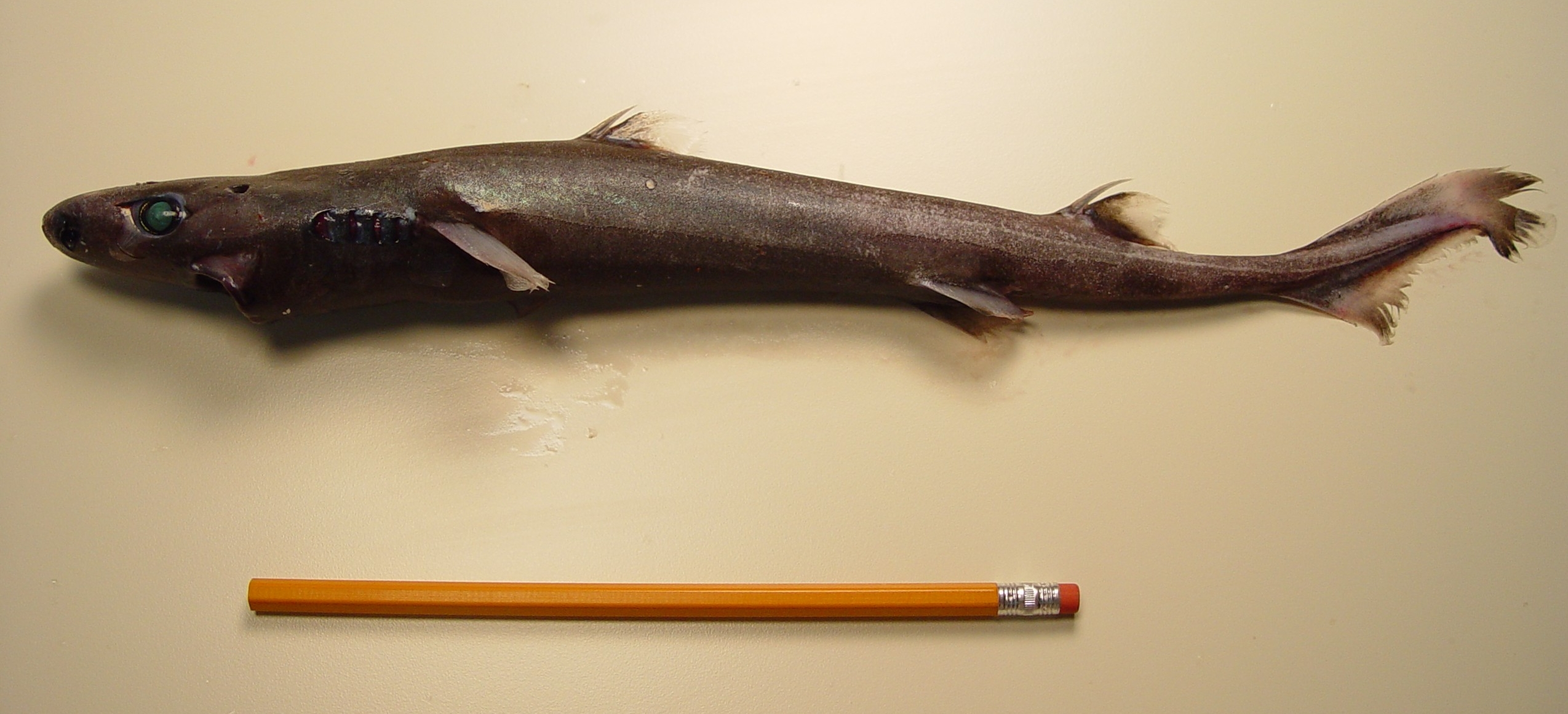 Smooth lanternshark (Etmopterus pusillus) from the Gulf of Mexico